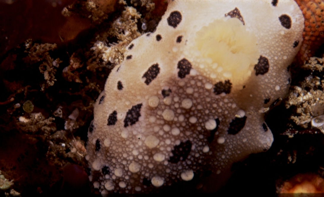 a photo of Mandela's nudibranch, Mandelia mirocornata taken at Vulcan Rock off the Atlantic side of the Cape Peninsula in about 25 m of water using a Nikonos V camera.